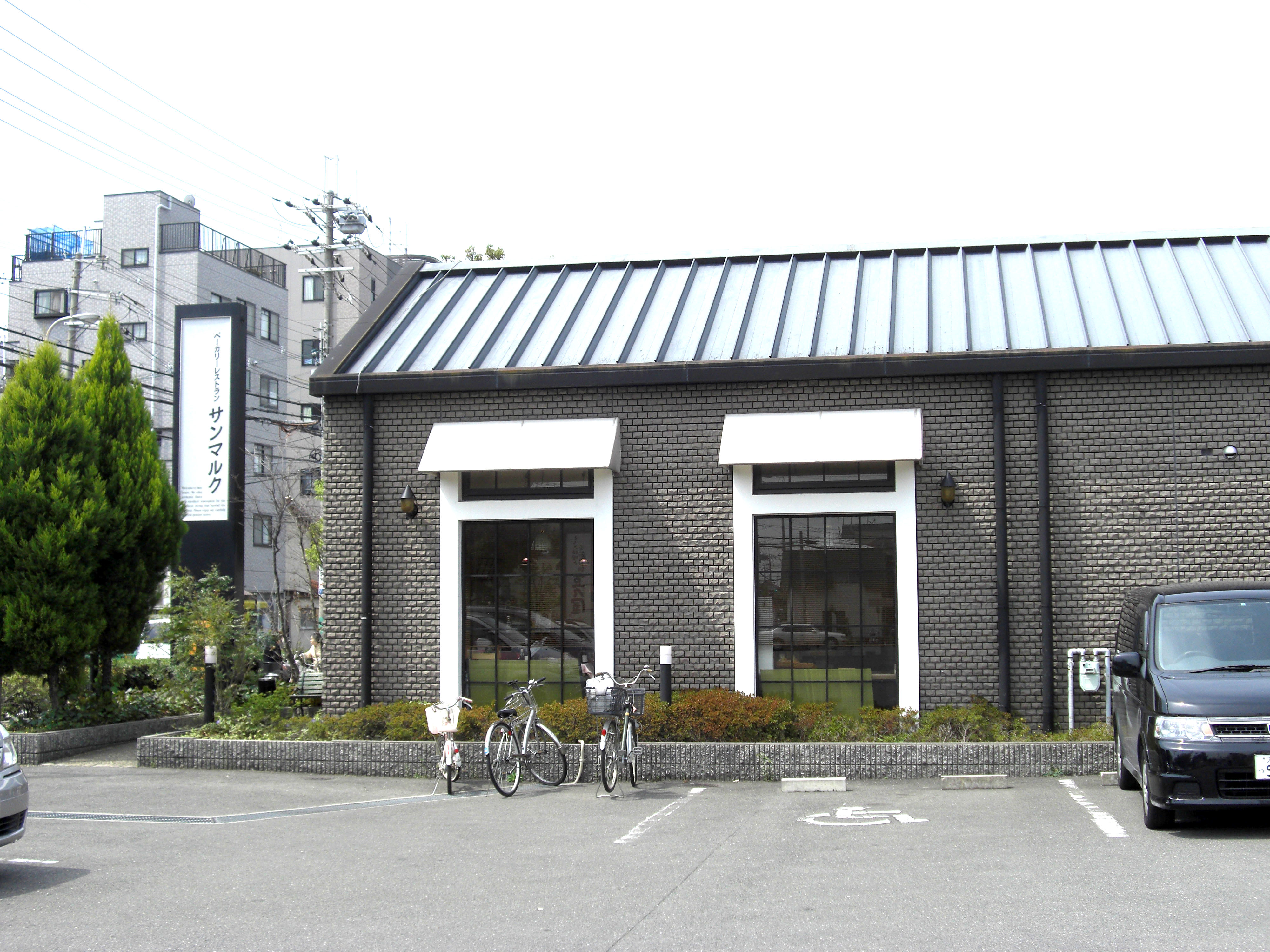 Saintmarc Ibaraki,Nakatsucho Ibaraki-City Osaka Japan.